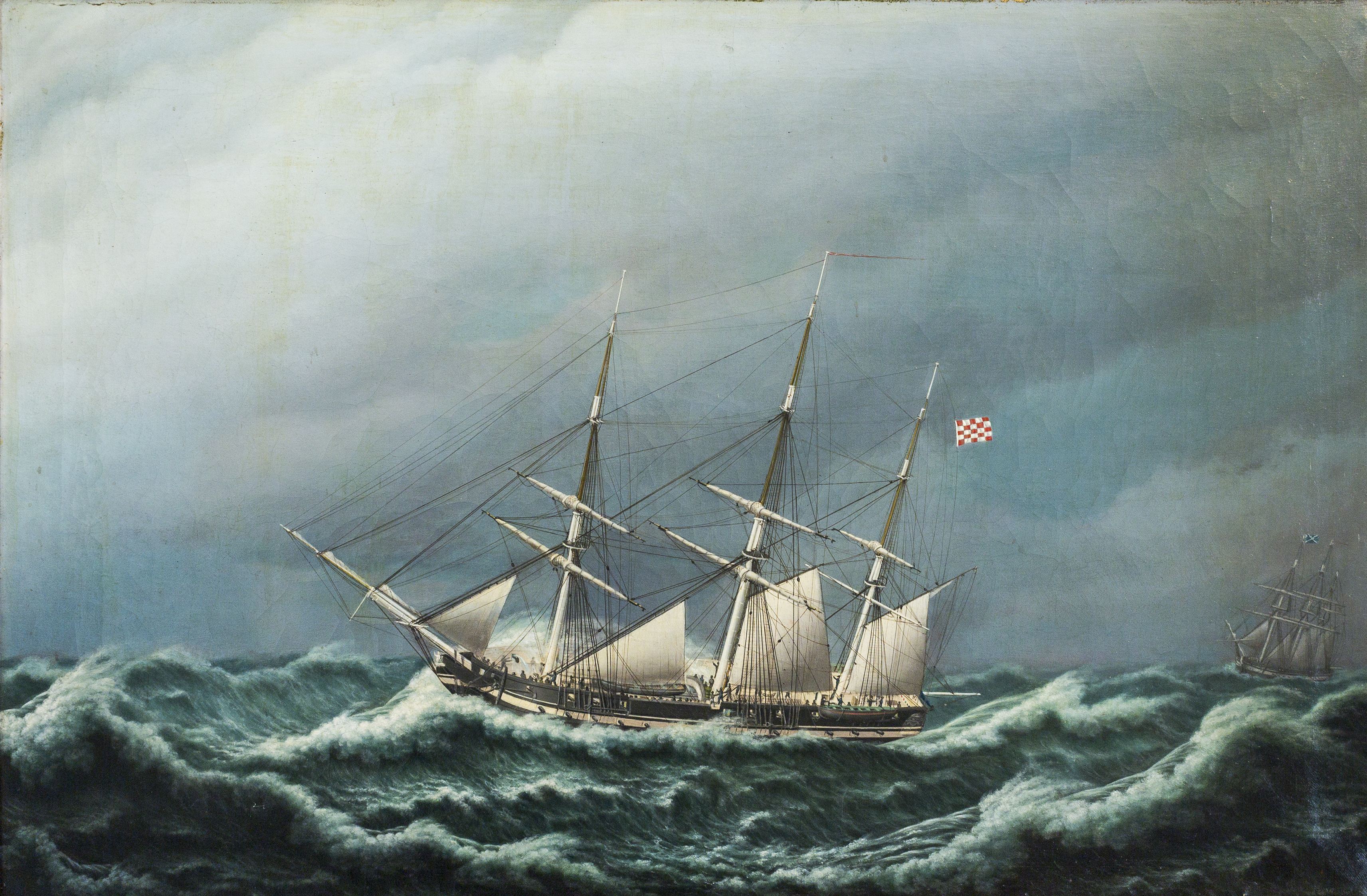 Two Danish Frigates signalling in a Storm. Original painting owned by Statens Museum for Kunst and situated at Amalienborg Palace.